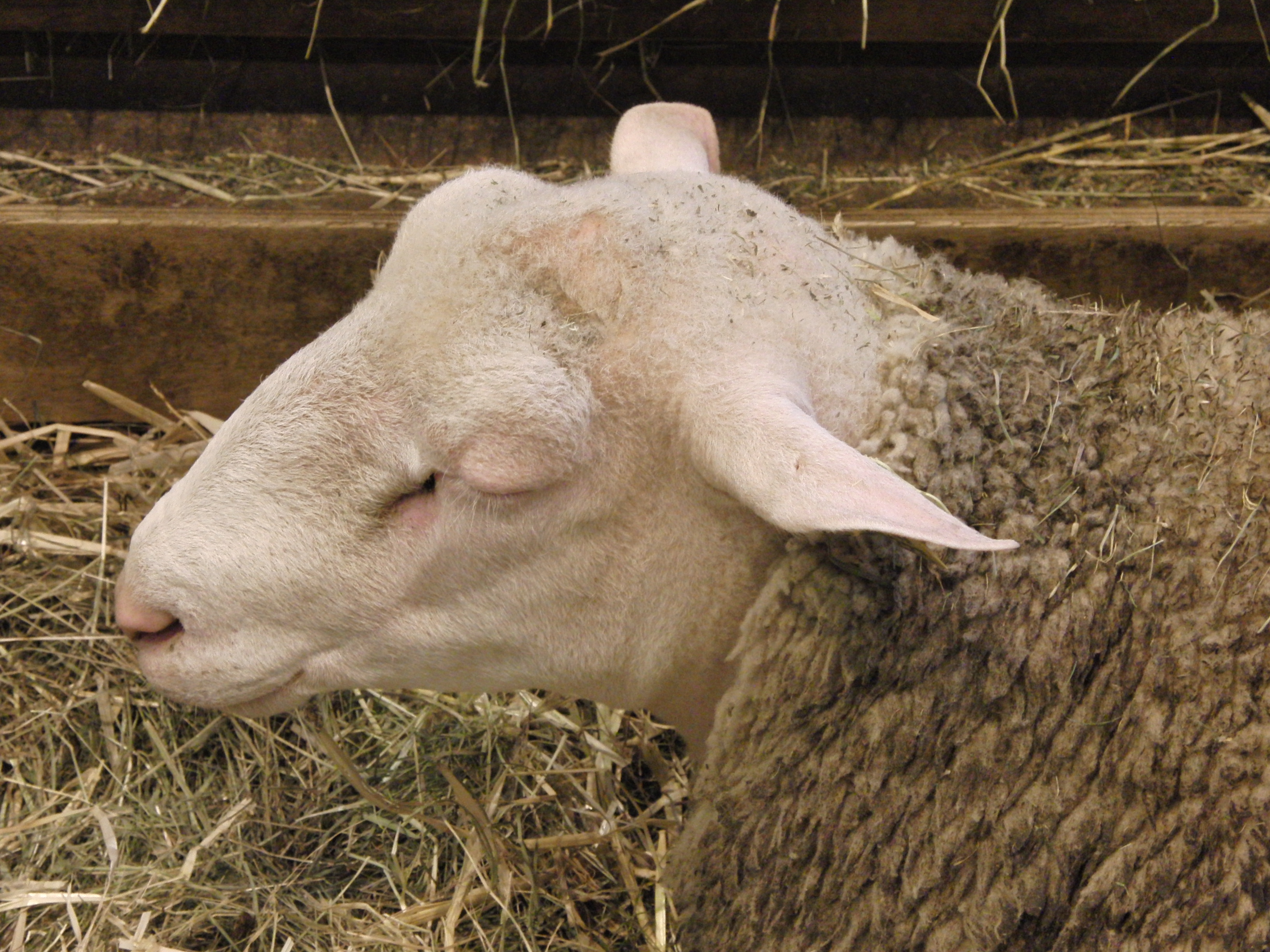 Berrichon du Cher sheep - Salon international de l'agriculture 2011, Paris, France